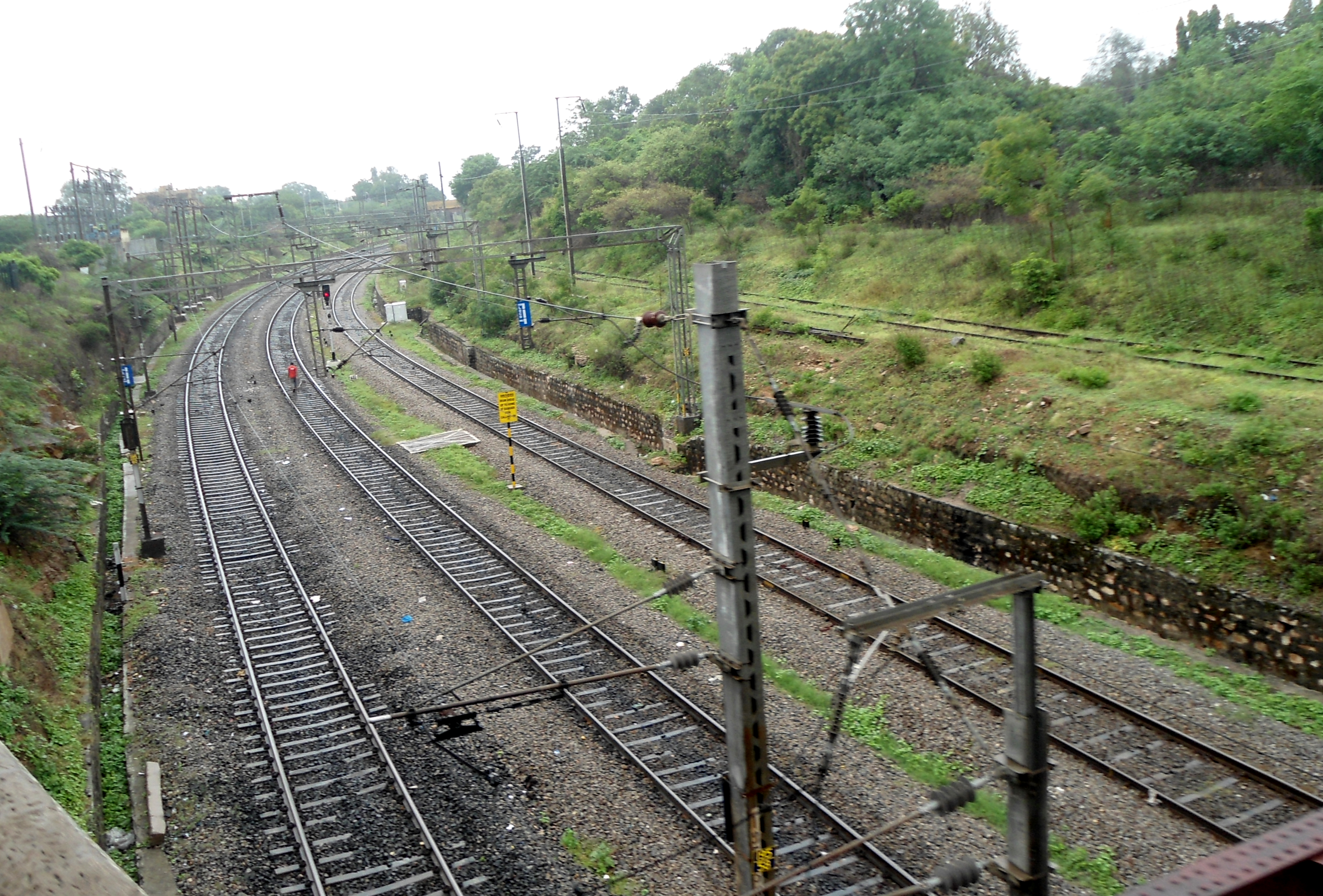 SC-Kazipet Trunk Route near Moula-Ali, Secunderabad